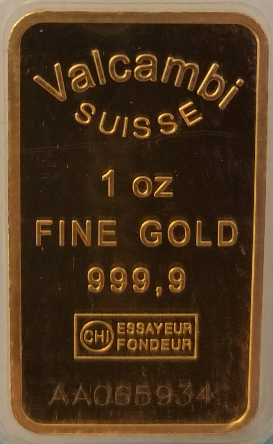 1 oz of 999,9 fine gold from Valcambi Suisse